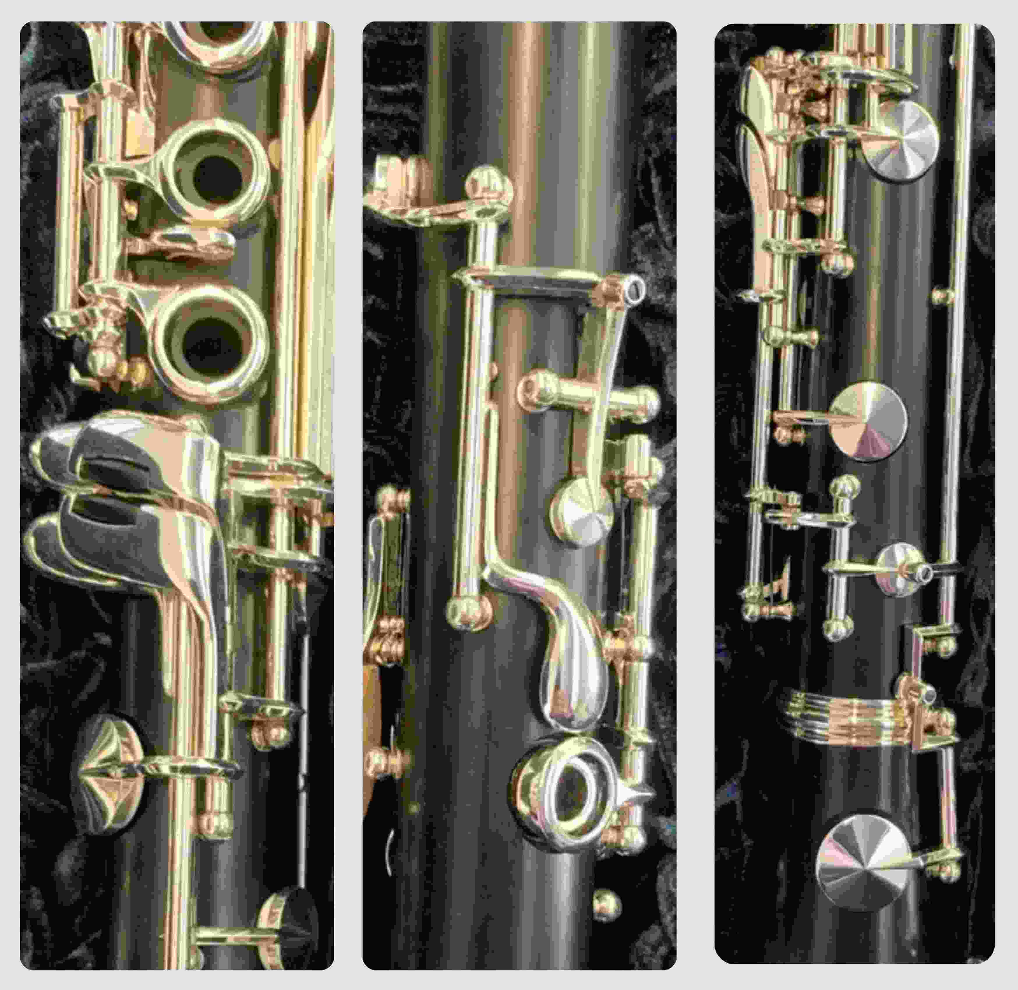 Details of a "reform Boehm clarinet"